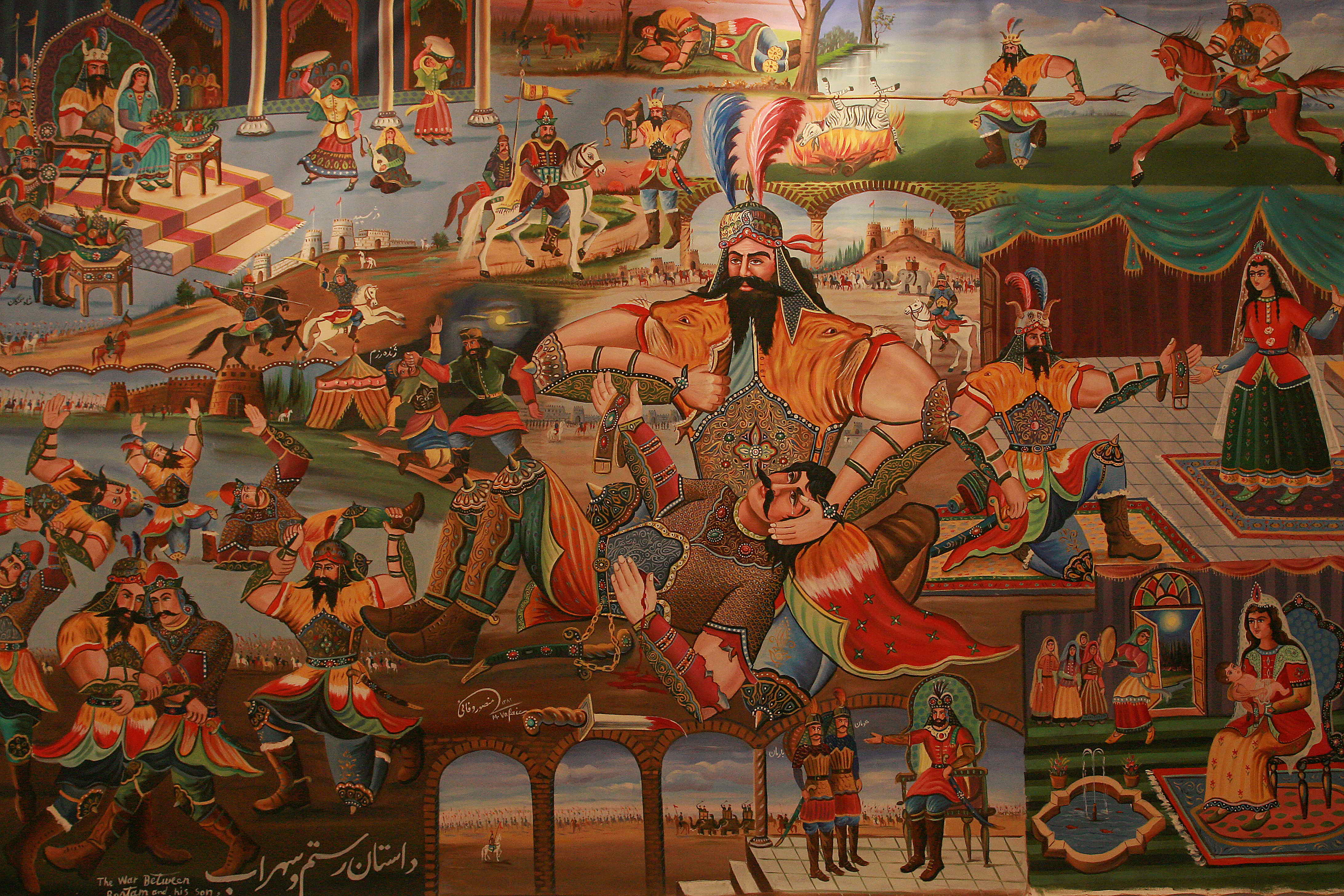 Persian miniature in qahveh-khaneh(Cafés) in Tehran.